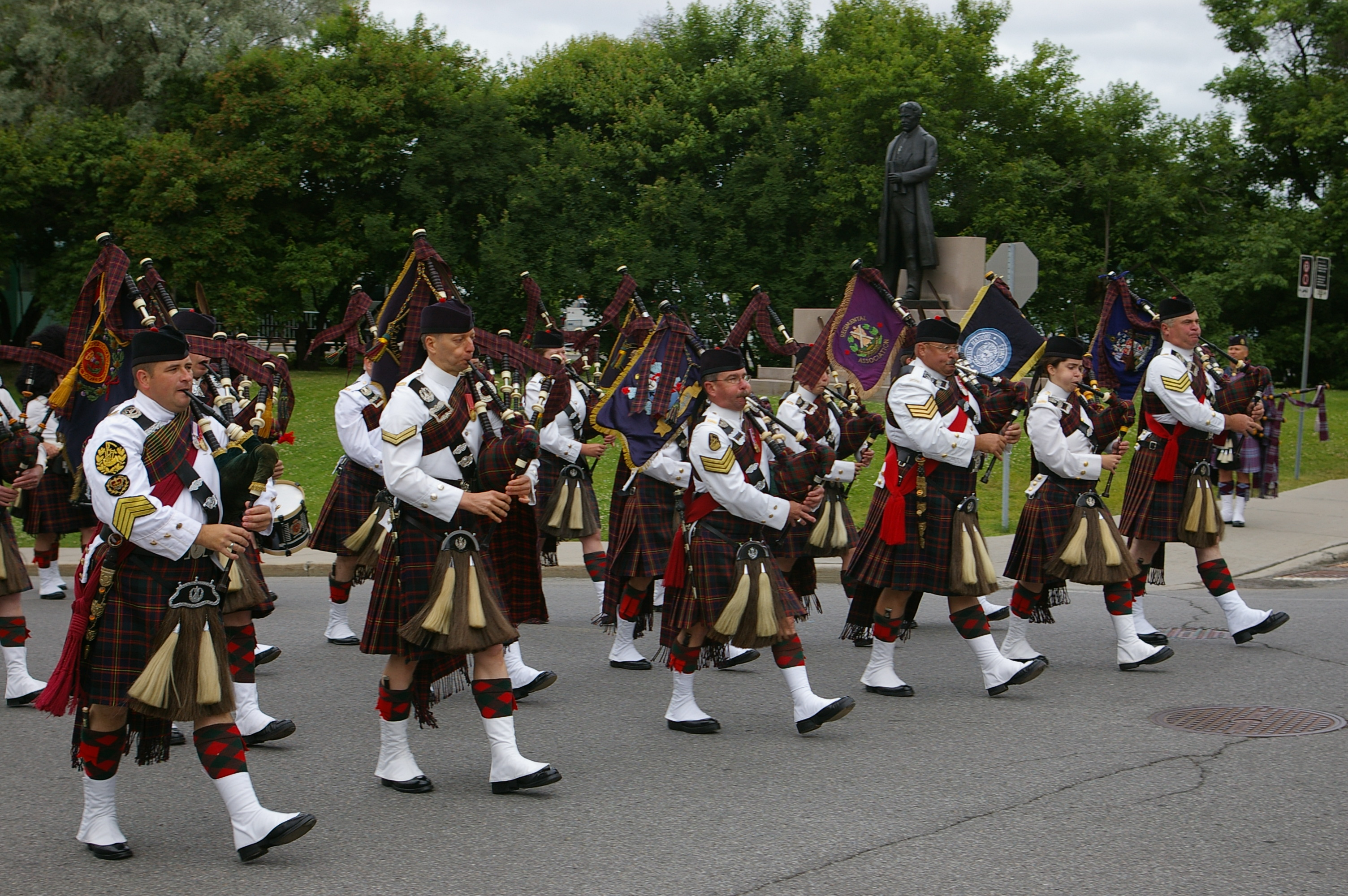 Pipes & Drums of The Cameron Highlanders of Ottawa - 1 July 2007 - Canada Day in Ottawa, Ontario.